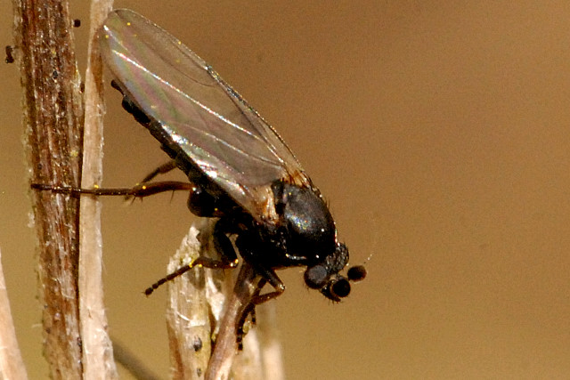 Anevrina urbana from Commanster, Belgian High Ardennes .